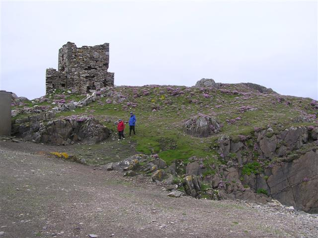 Carrickabraghy Castle, Doagh Island Looking NNW